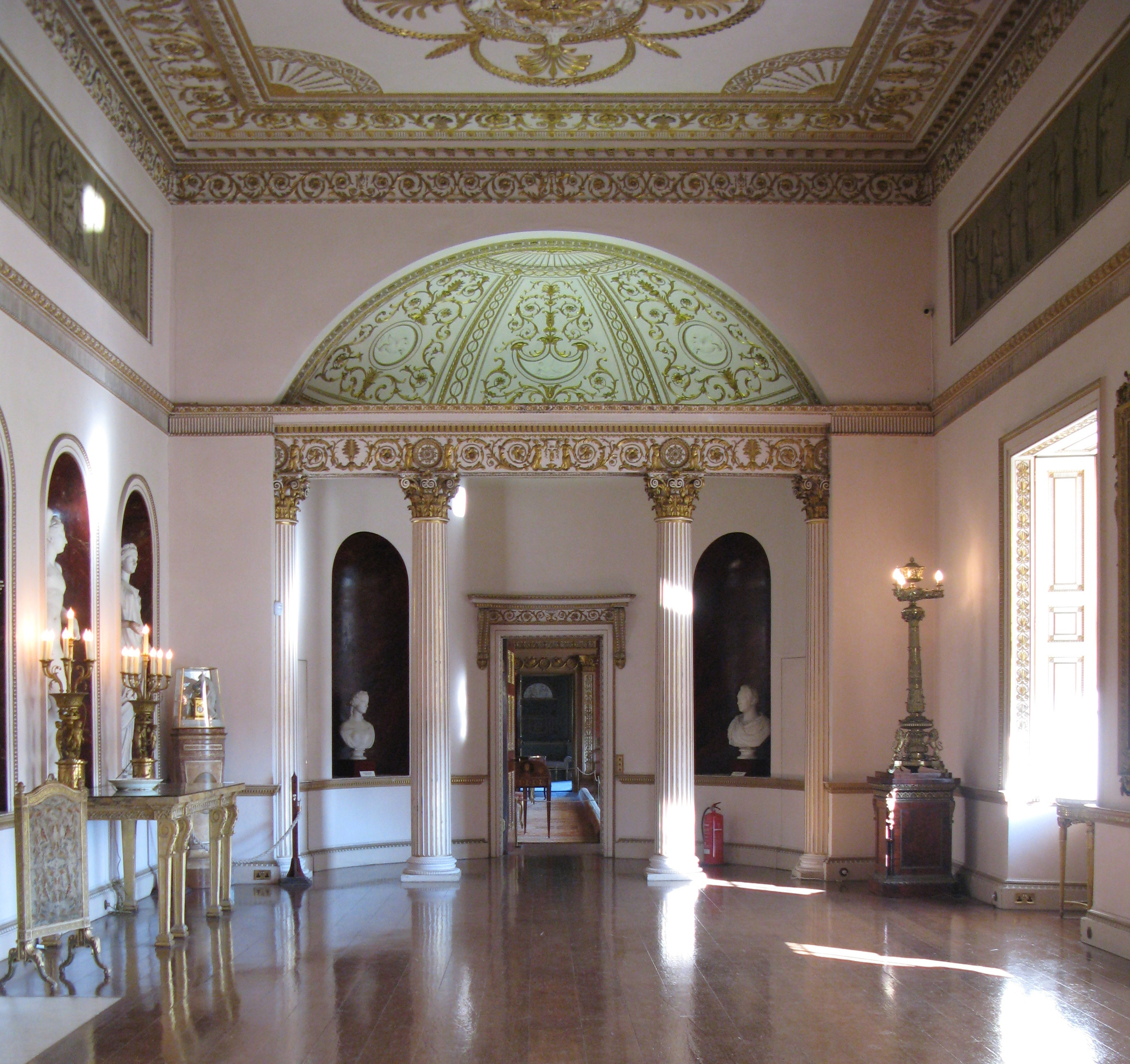 Interior of Syon House. This room doubled as a college museum in the Endeavour episode "Trove" (2014).